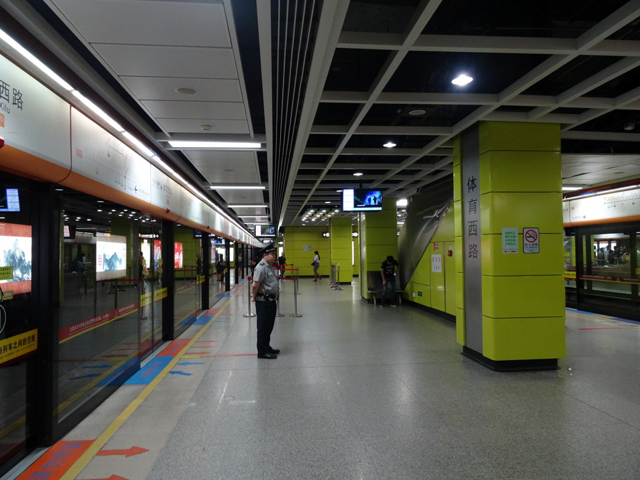 體育西路站3號線東邊的月台